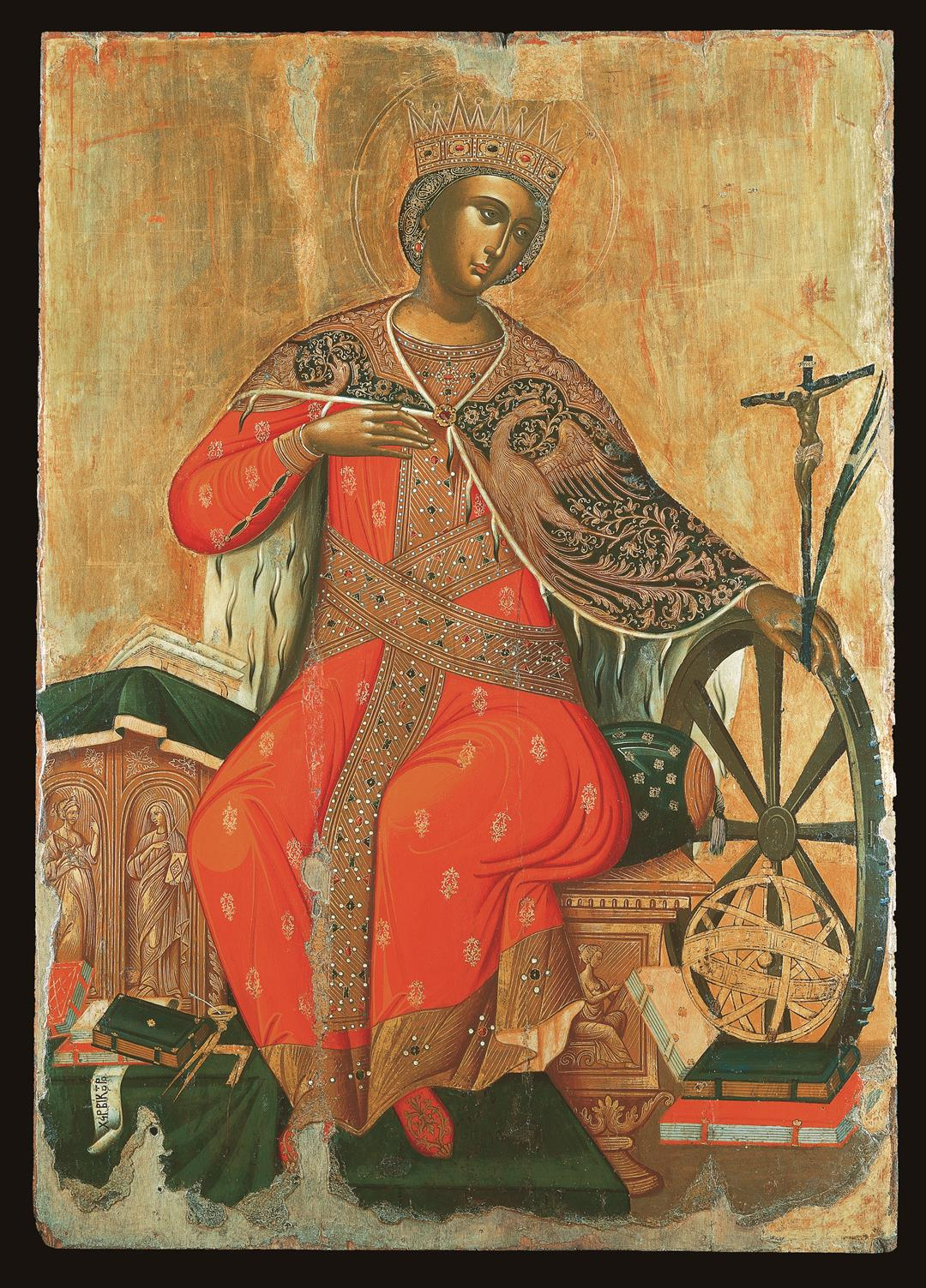 Icon with St Catherine. Painted by the Cretan artist Viktor. Second half of the 17th c. Origin: Messina, Sicily Creator: Viktor Measurement: 120 x 85 cm Exhibit Number: ΒΧΜ 01568